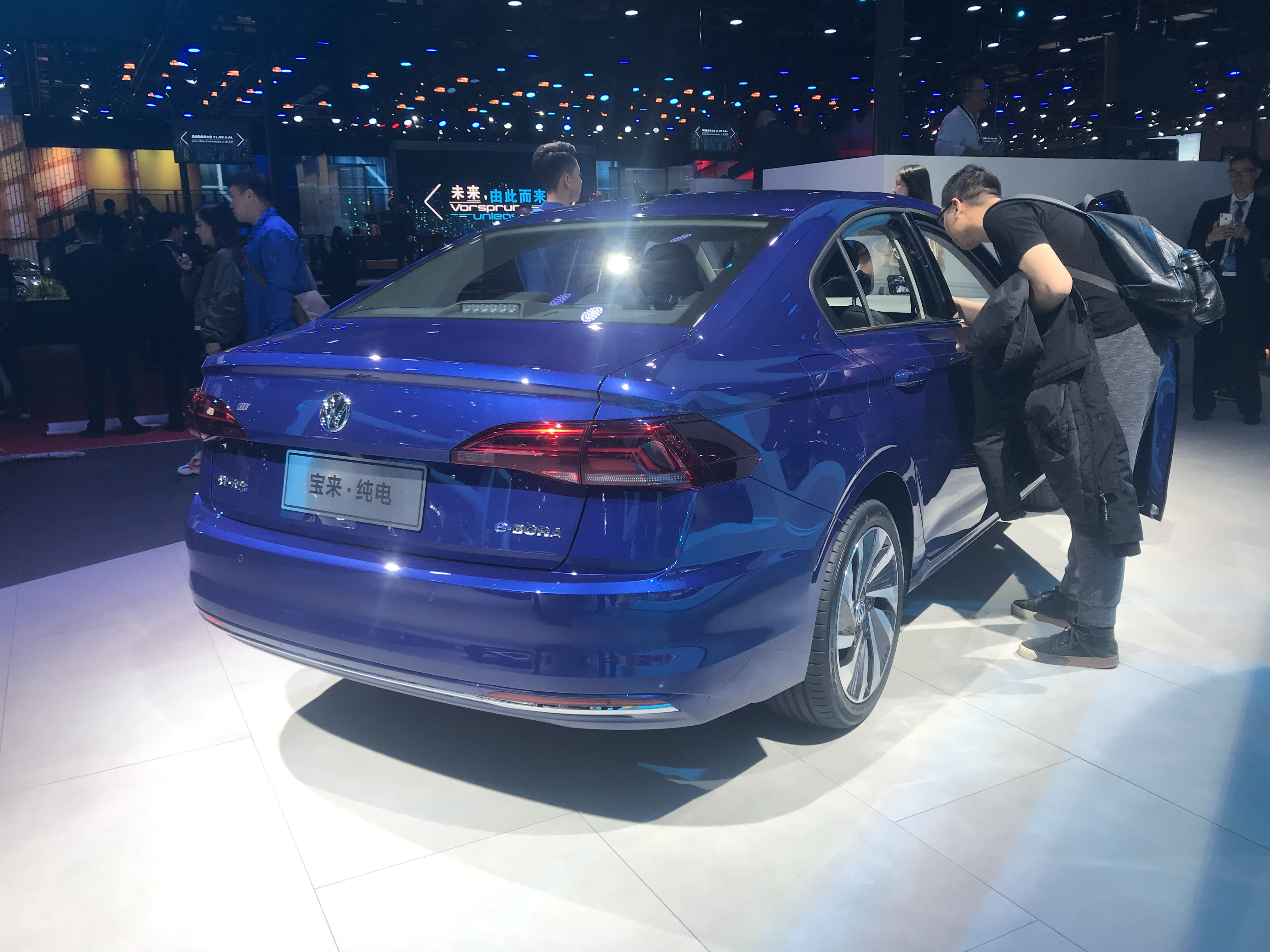 Volkswagen e-Bora rear